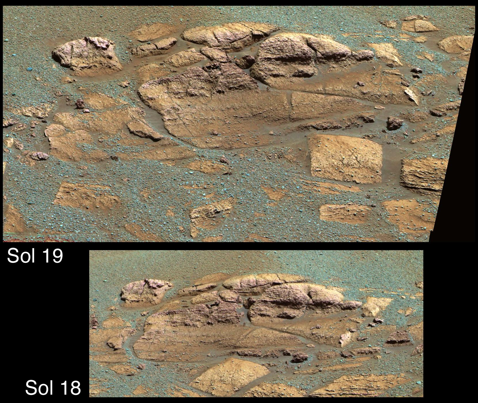 This image from the Mars Exploration Rover Opportunity's panoramic camera shows the "El Capitan" region of the rock outcrop at Meridiani Planum, Mars. On the bottom is the view obtained from the "Alpha" waypoint station on Sol 18 of Opportunity's mission. On the top is the view obtained after the rover had moved to "Bravo" waypoint station on Sol 19. This image is a false-color composite using the red, green and blue filters.